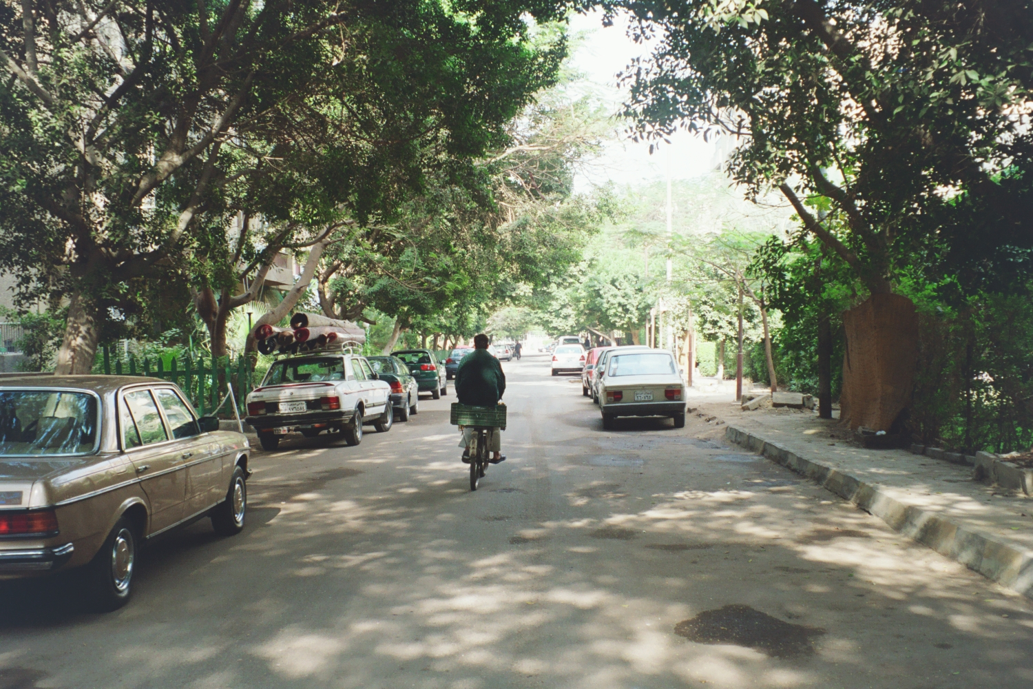 Street 232 in Maadi, Egypt PD